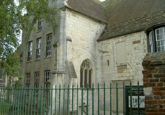 Bell Place, Gloucester. Converted into his private residence before 1545 from the Church of the Blackfriars Monastery by Sir Thomas Bell(d.1566) thrice Mayor of Gloucester.